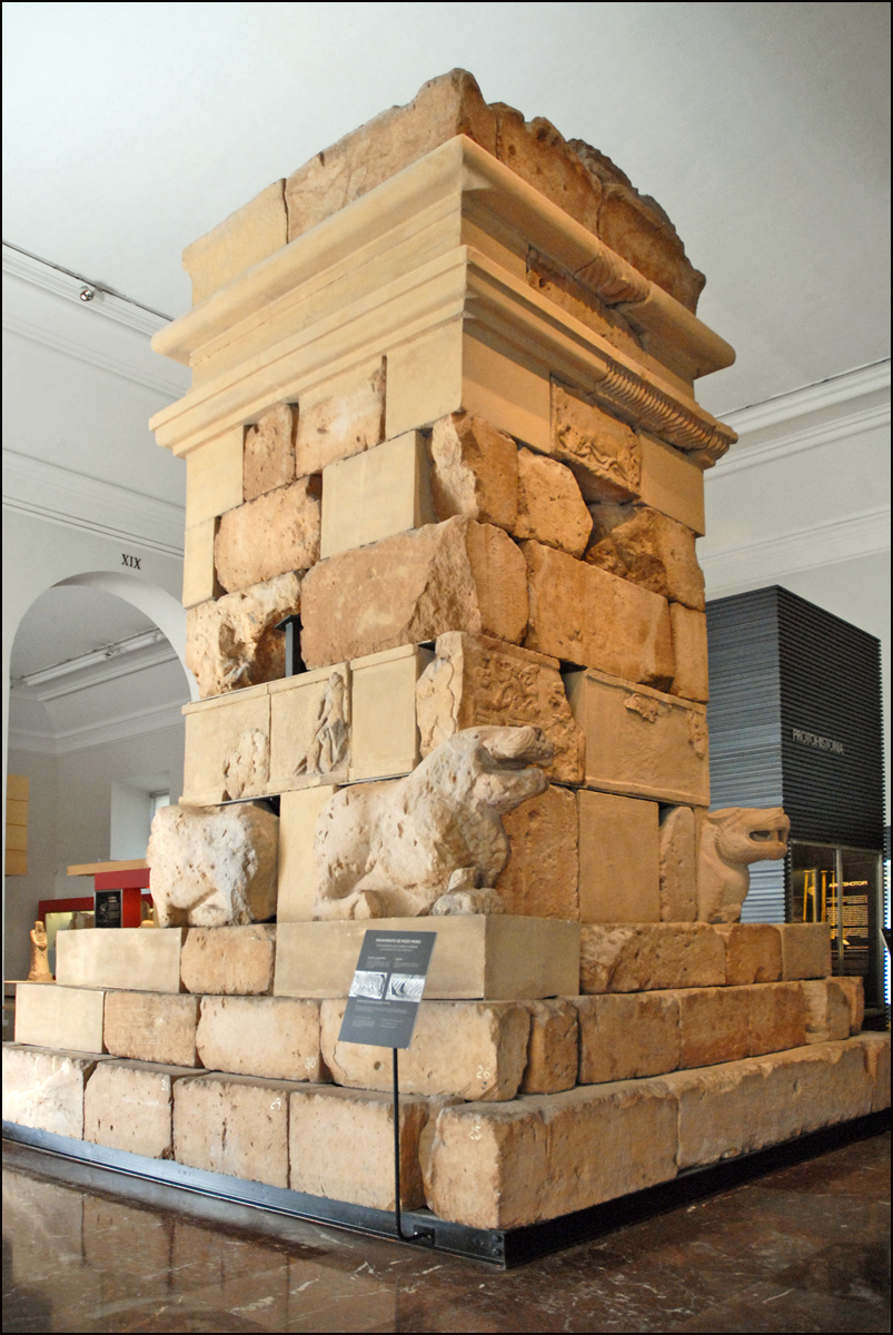 Iberian mausoleum.